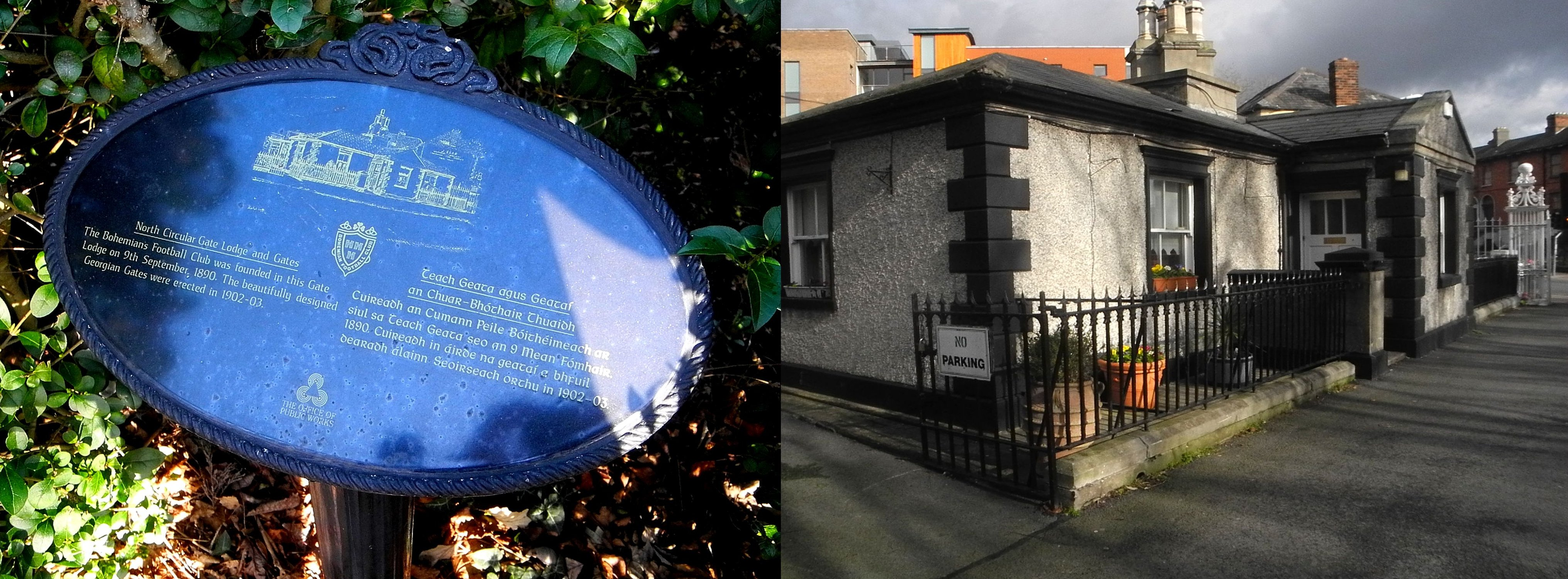 Gate Lodge & plaque to note the founding of Bohemian FC